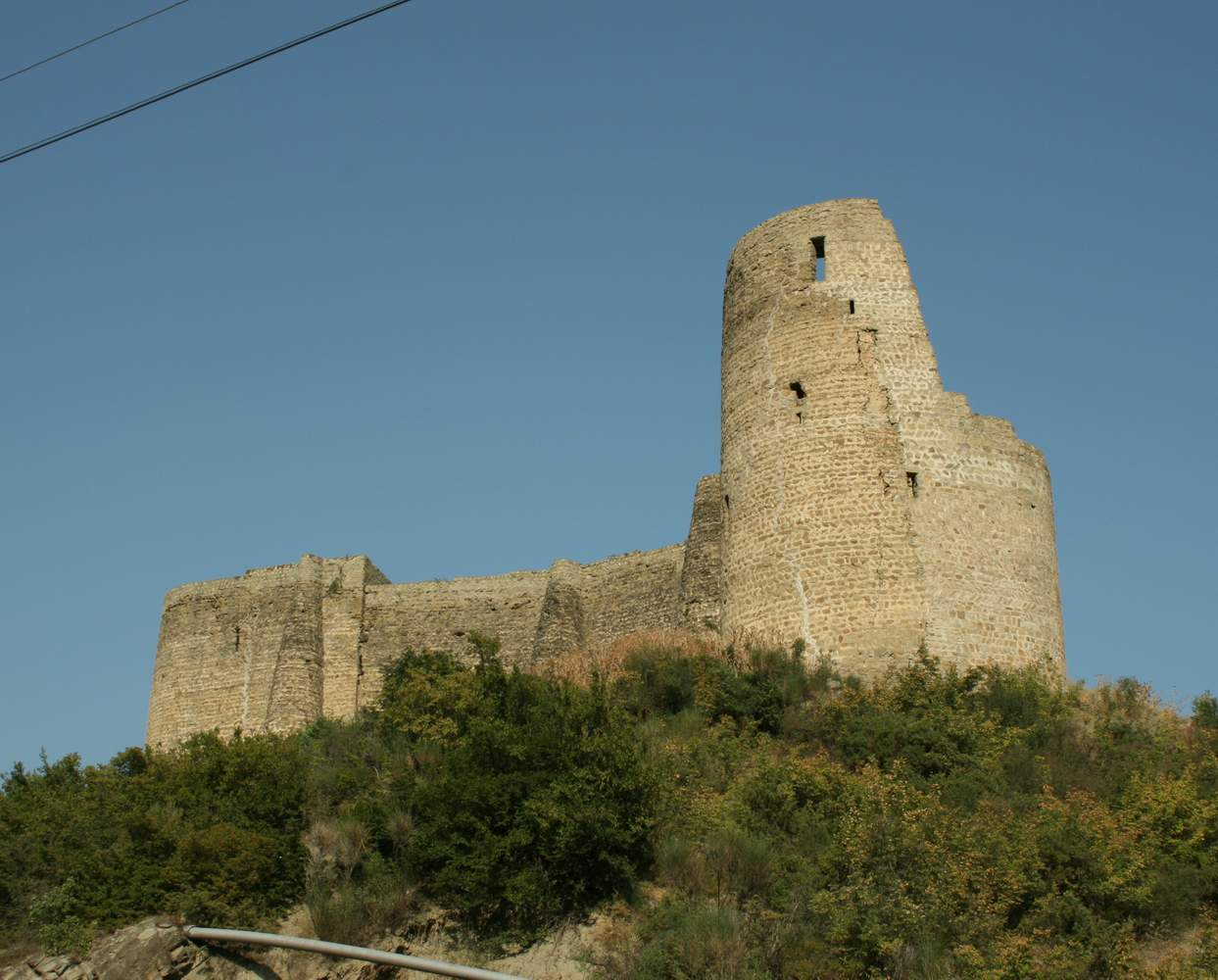 Bebris-Tsikhe, Mtskheta, Georgia